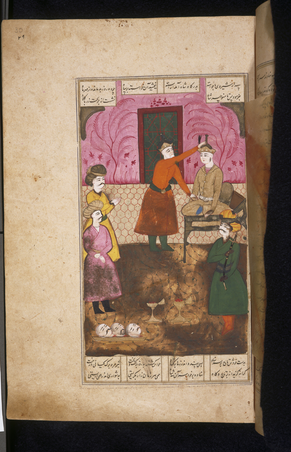 Illumination from a Shahnameh manuscript[1]